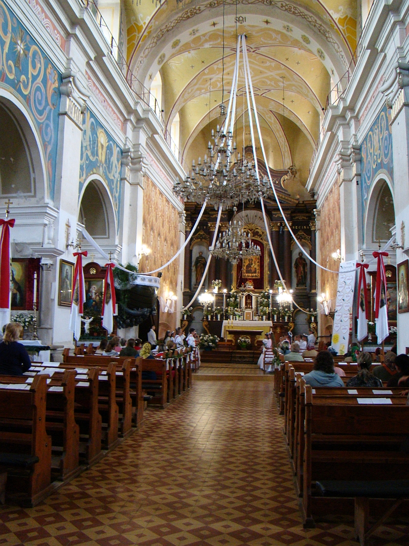 church in Rudky